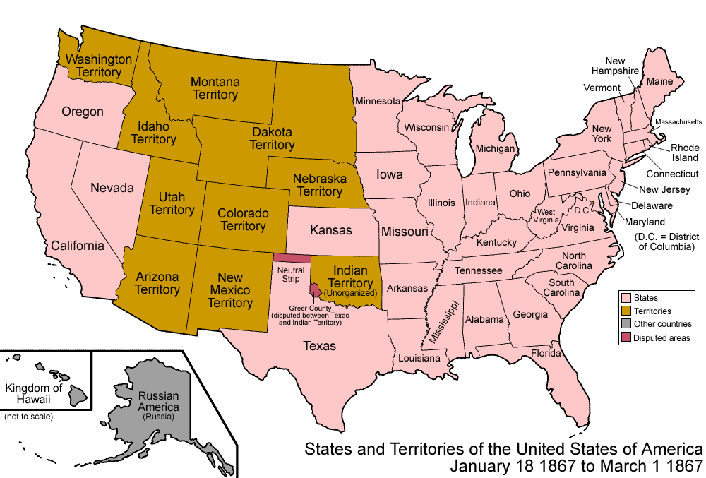 Map of the states and territories of the United States as it was from January 1867 to March 1867. On January 18 1867, the northwestern triangle of Arizona Territory was given to Nevada. On March 1 1867, Nebraska Territory was admitted as the state of Nebraska.